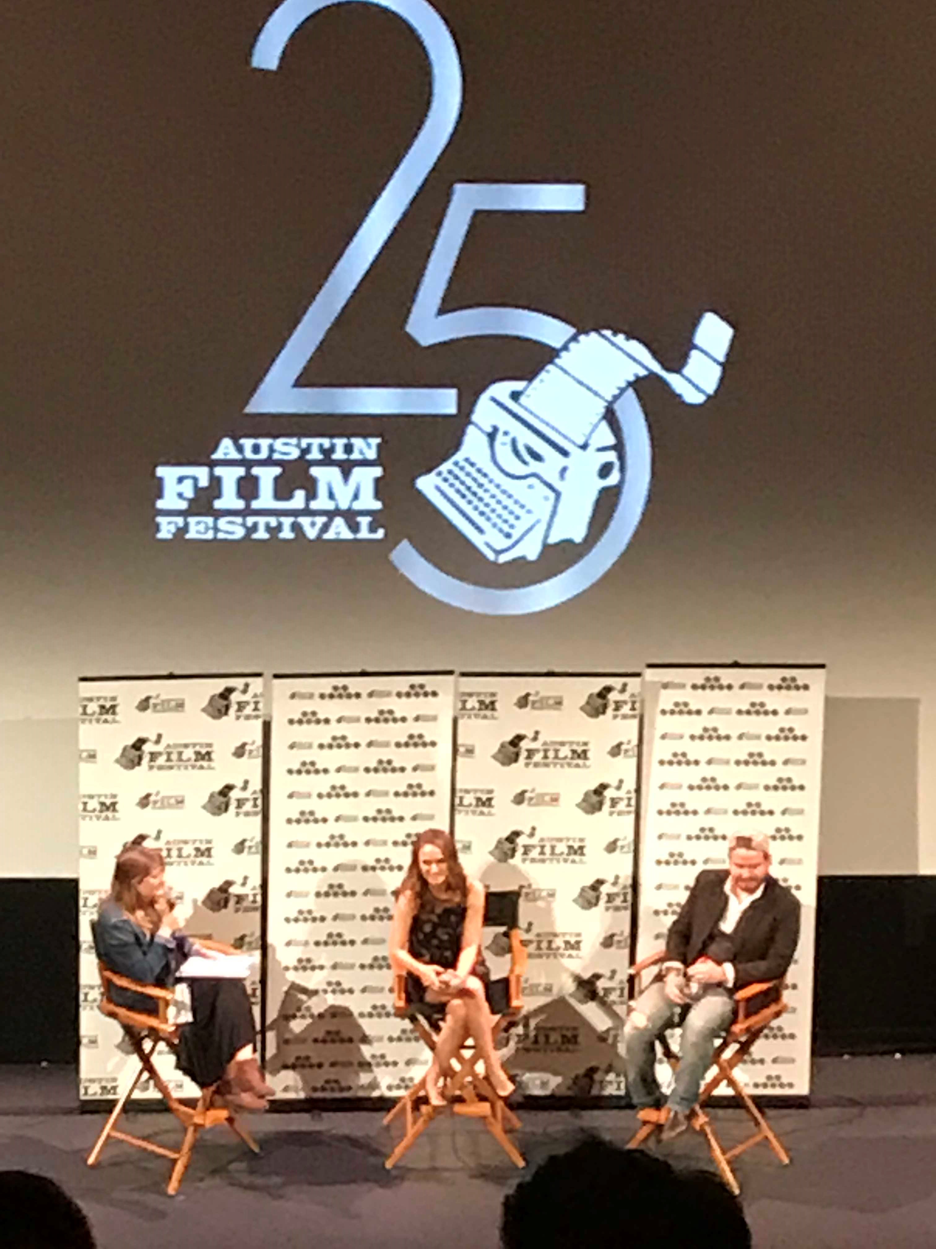 Natalie Portman and Brady Corbet after Vox Lux opening night of Austin Film Festival 2018 at Paramount Theatre